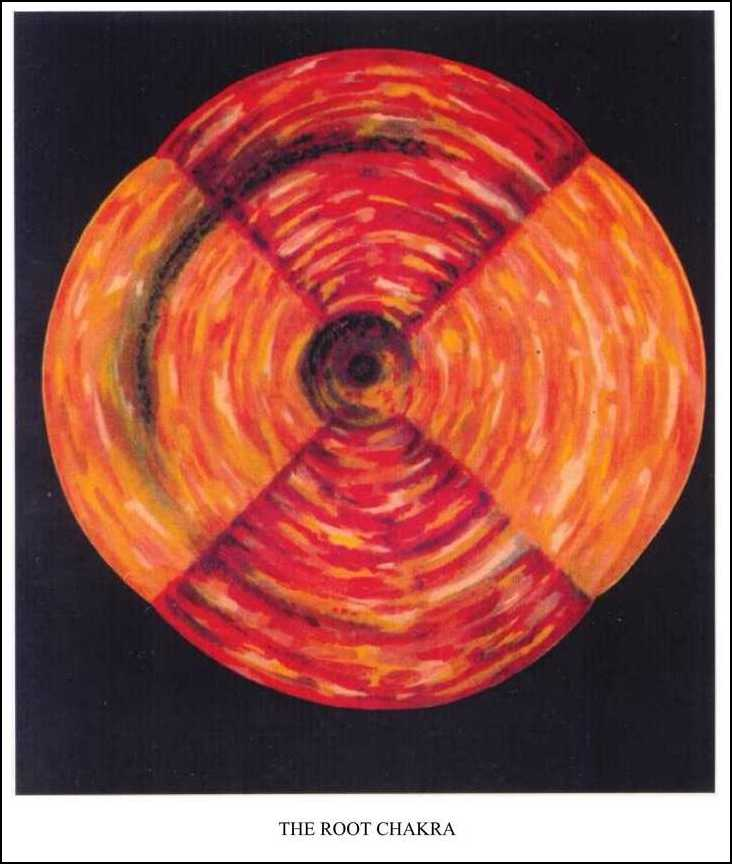 The root chakra